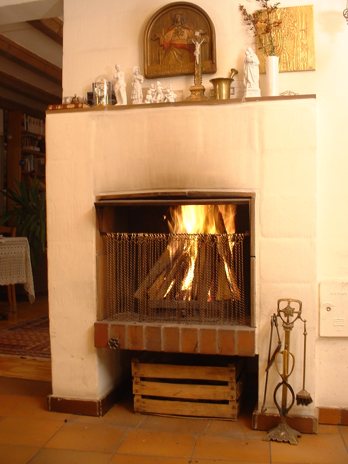 Fireplace in a House in the Allgäu